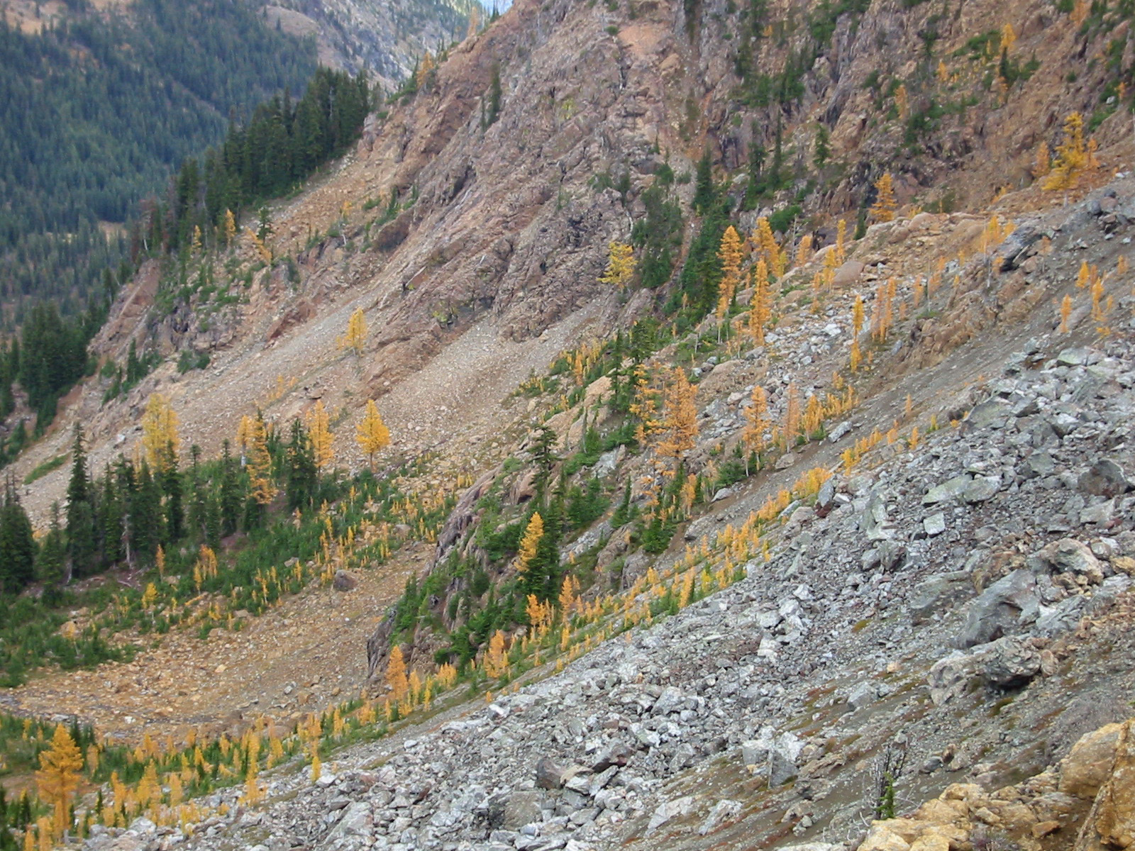 Subalpine Larch (Larix lyallii) fall foliage with Mountain Hemlock and Subalpine Fir behind.